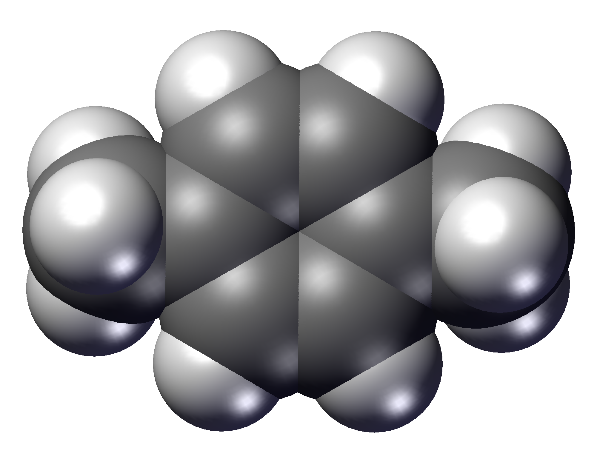 3D model of p-xylene molecule. Prepared with Discovery Studio Visualizer 1.7 and GIMP 2.2